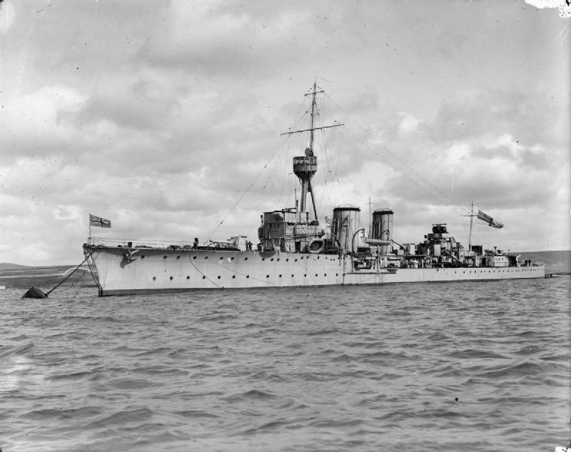 British light cruiser HMS CANTERBURY.